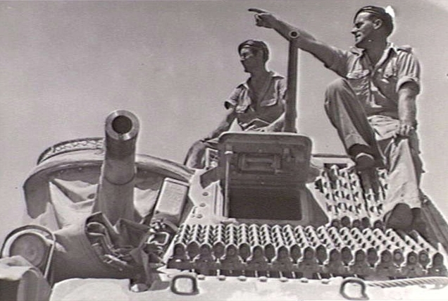 AWM Caption: WALLGROVE, NSW 1946-01-16. 2/5TH CAVALRY REGIMENT, 4TH ARMOURED BRIGADE. TROOPERS BENTLEY AND LEAR GET A BETTER VIEW OF THEIR CAMP FROM THE TOP OF THEIR GENERAL GRANT M3 MEDIUM TANK. THE TANK IS POWERED BY TWIN SIX CYLINDER GENERAL MOTORS' DIESELS DEVELOPING 375 HORSEPOWER,GIVING THE TANK A TOP SPEED OF THIRTY MILES PER HOUR. (PHOTOGRAPHER L. CPL E. MCQUILLAN)